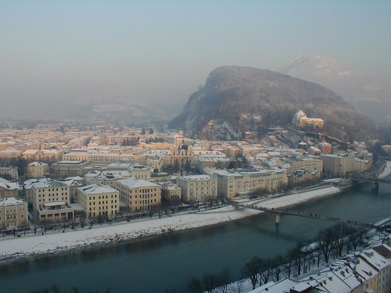 Salzburg, the Neustadt in Winter